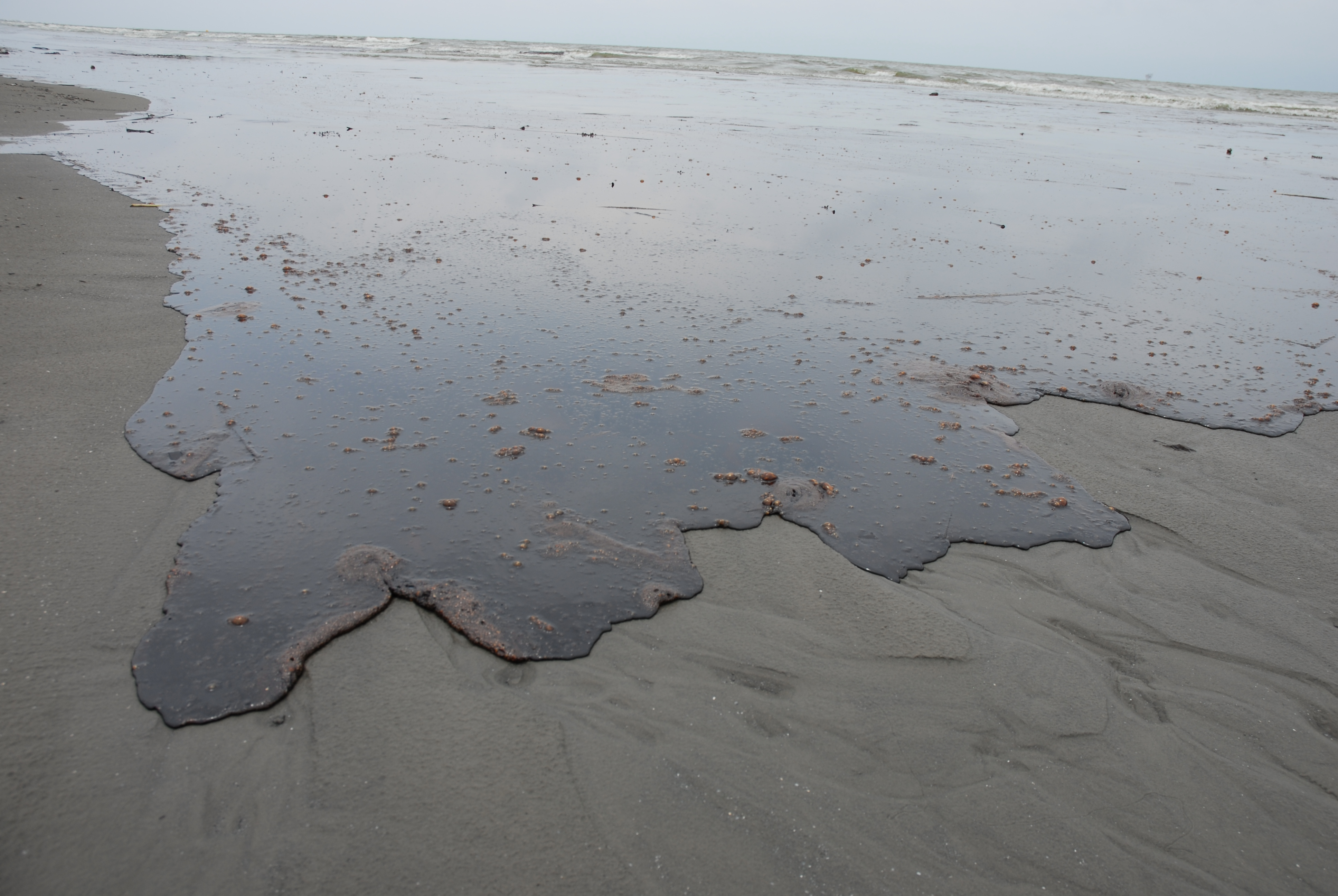 Thick oil washes ashore Louisiana’s coast; June 10,2010 Photos courtesy of Governor Jindal’s office.